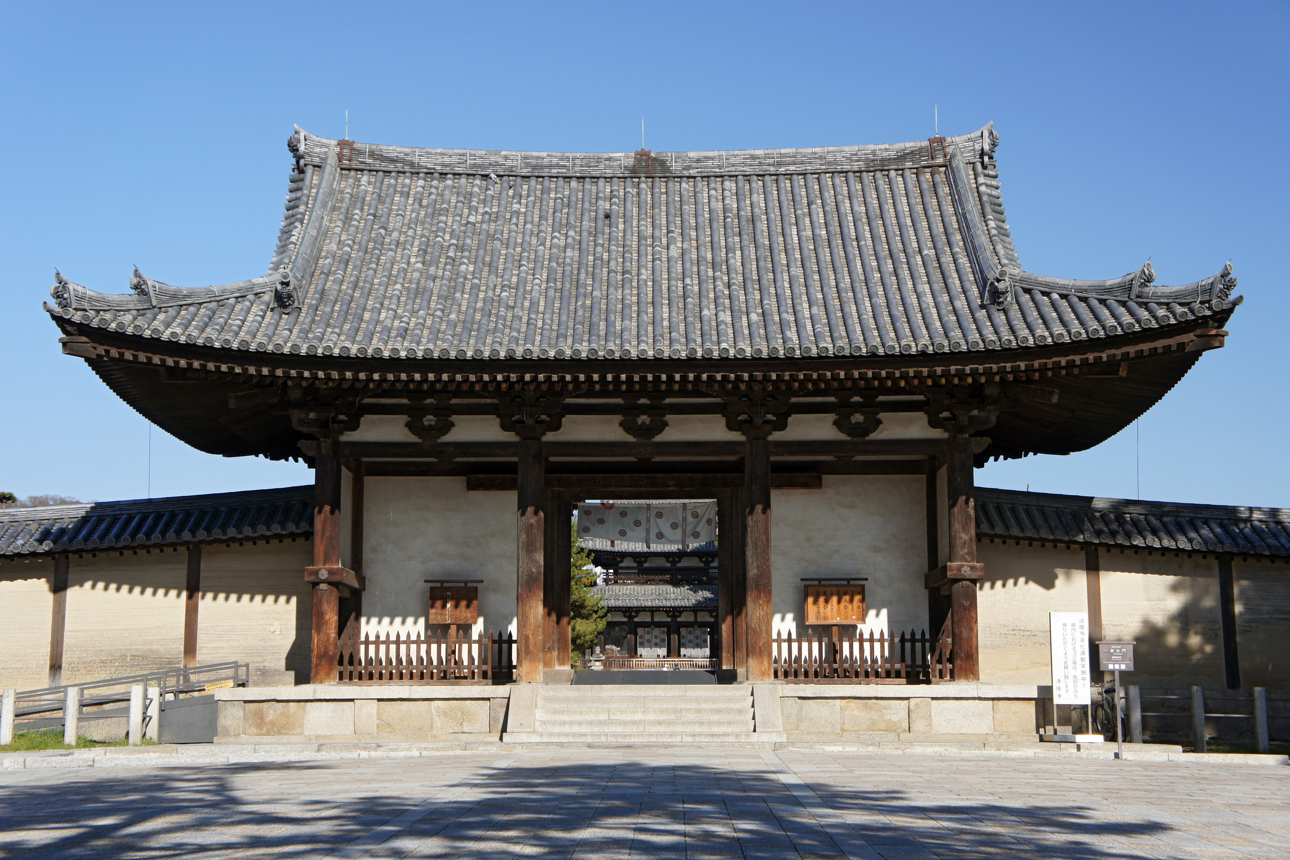 Nandaimon of Hōryū-ji is a Japan's National Treasure. Hōryū-ji is a Buddhist temple in Ikaruga, Nara prefecture, Japan. It was registered as part of the UNESCO World Heritage Site "Buddhist Monuments in the Hōryū-ji Area".